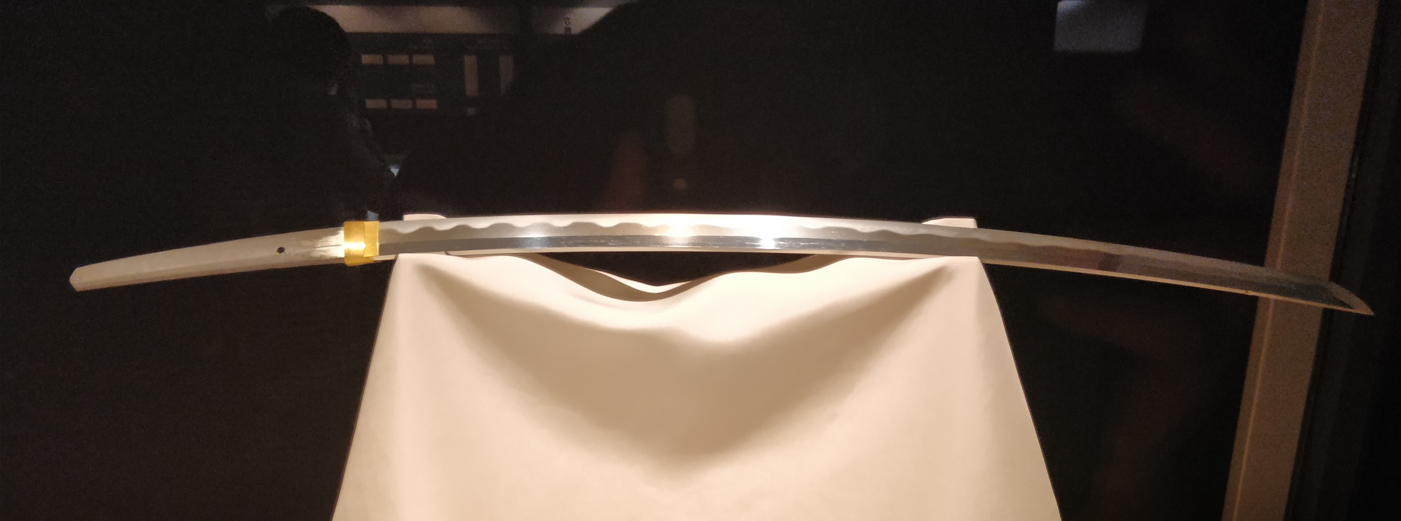 The katana nicknamed Ishida Masamune in the Tokyo National Museum since it was formerly owned by Ishida Mitsunari